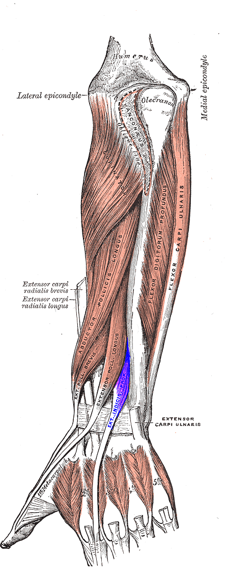 Posterior surface of the forearm. Deep muscles. Extensor indicis muscle is labeled in purple.